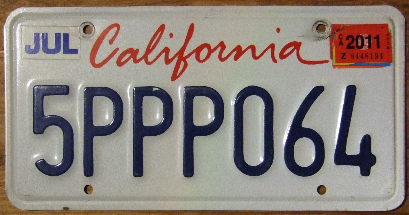 CALIFORNIA 2011 ---LICENSE PLATE, SCRIPT BASE PLATE